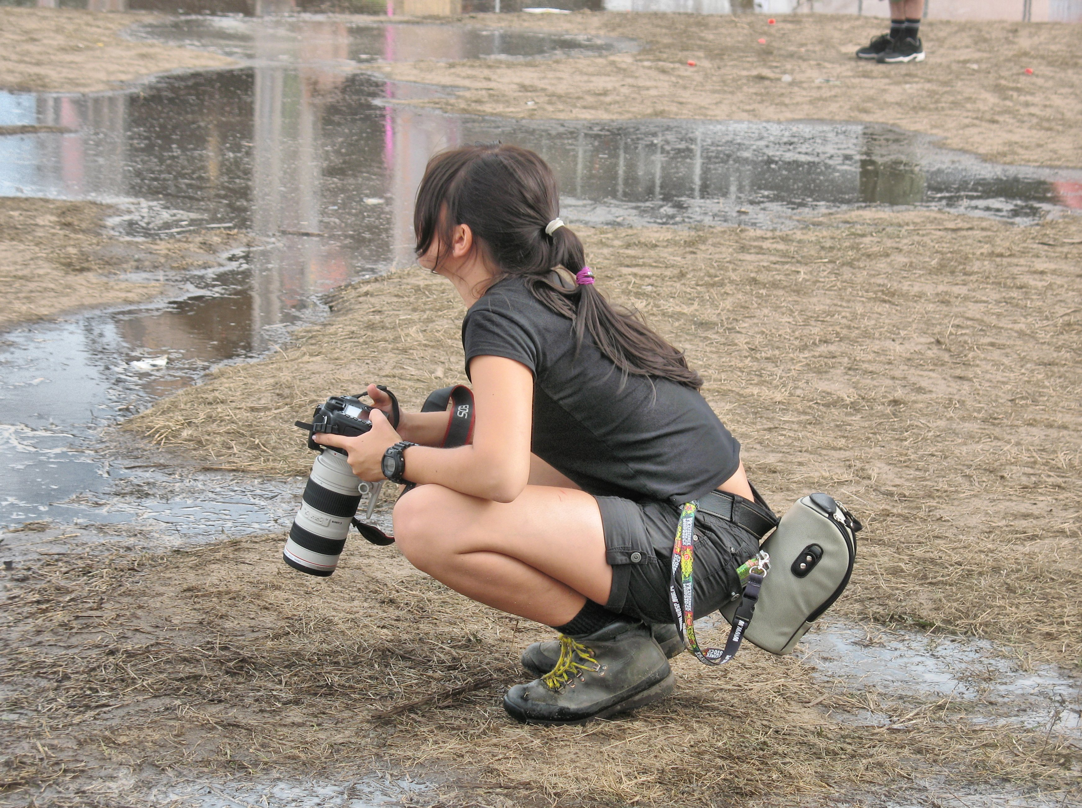 The Woodstock Gathering festival. A press photographer